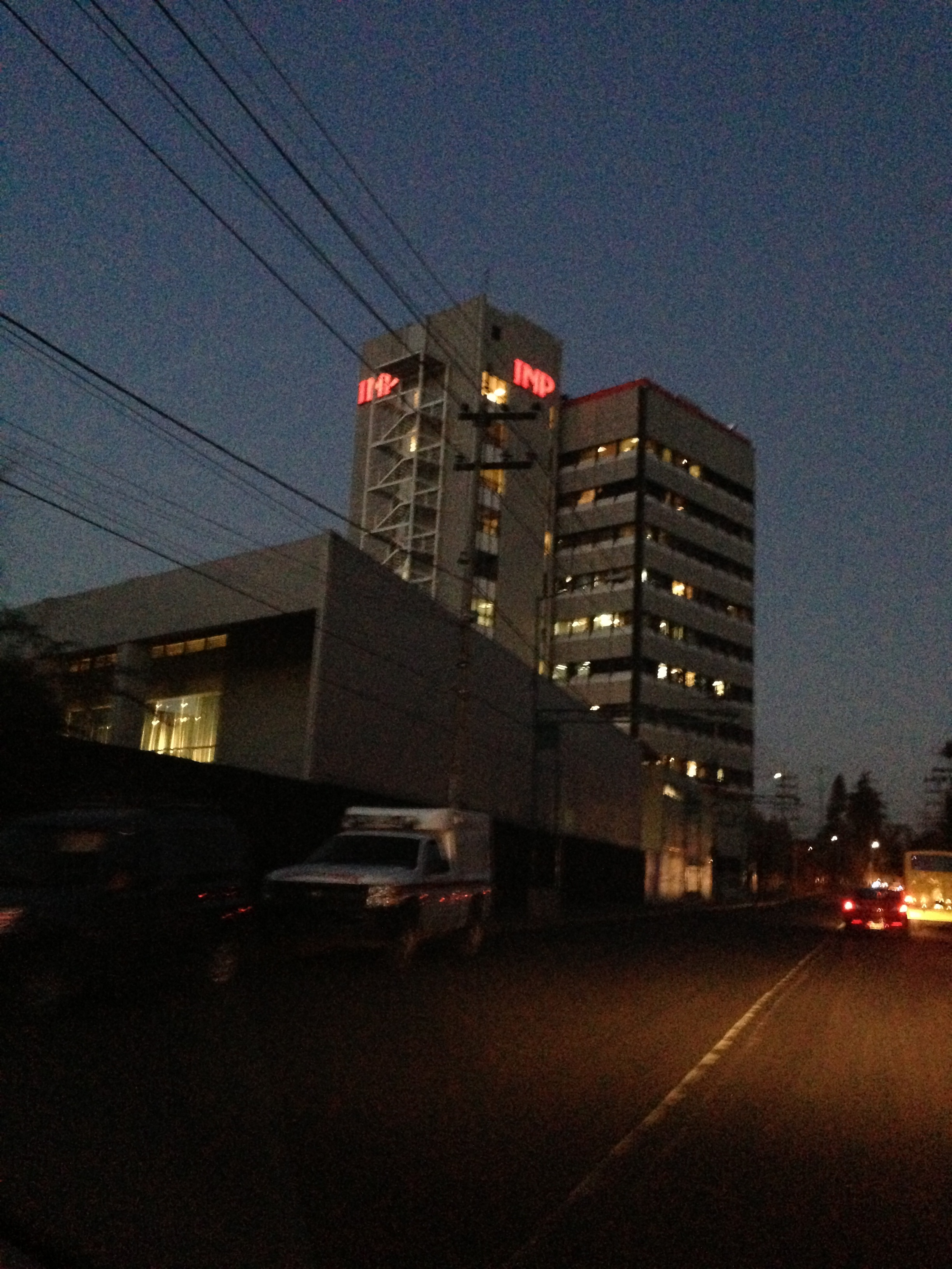 Instituto Nacional de Pediatria, located in Coyoacan, Mexico City